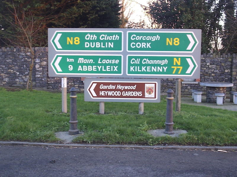 A road sign in Durrow.